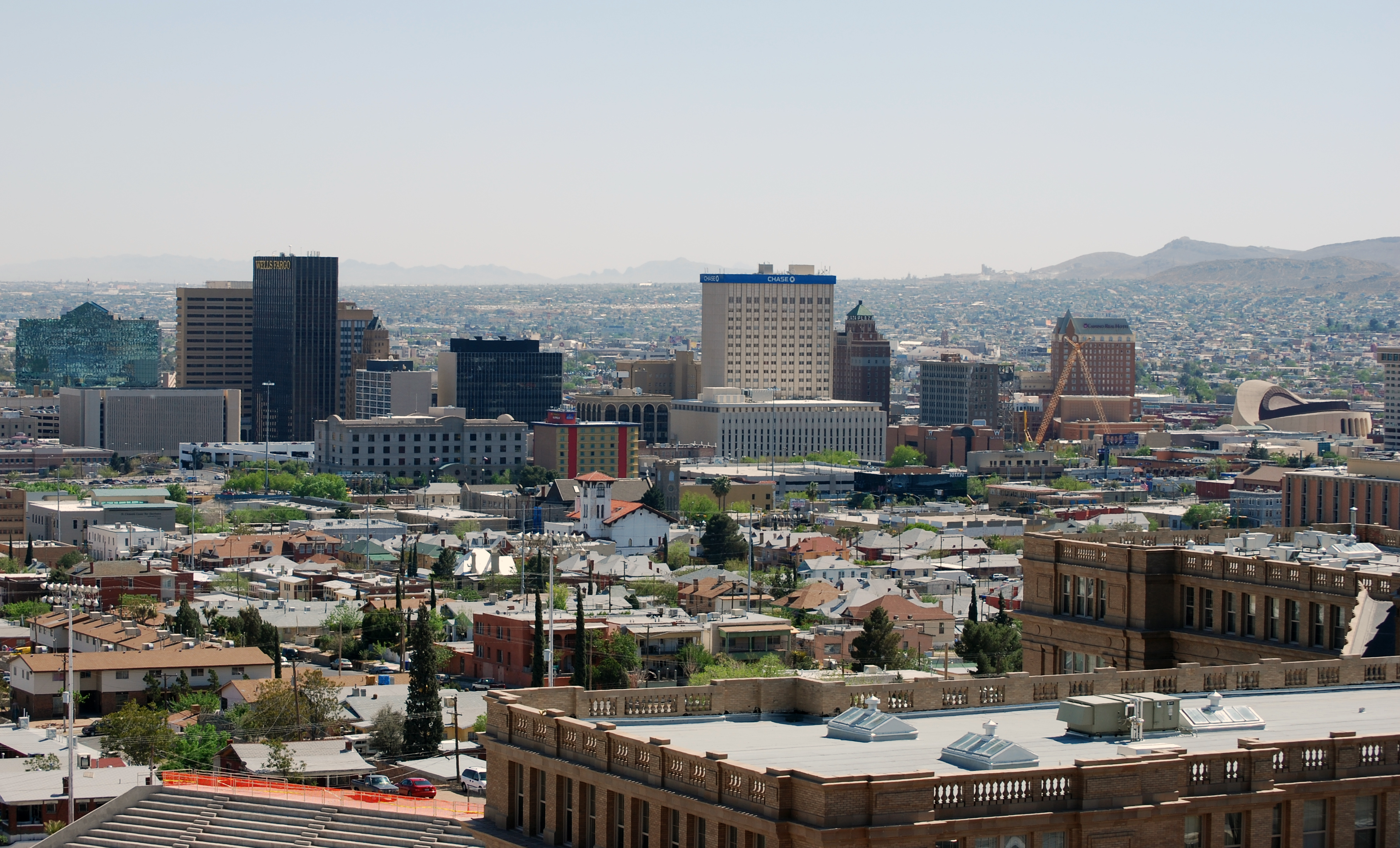 The skyline in El Paso (Texas, USA) viewed from the north.